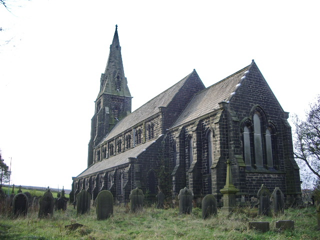 St Paul's Church, Denholme, near to Denholme, Bradford, Great Britain. To see the interior use the link Link